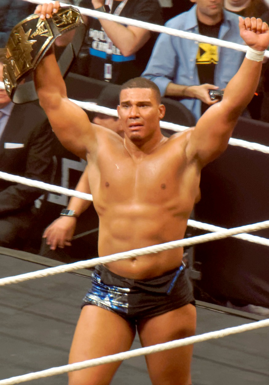 Jason Jordan as WWE NXT Tag Team Champion during the NXT Takeover Dallas event in April 1 2016.